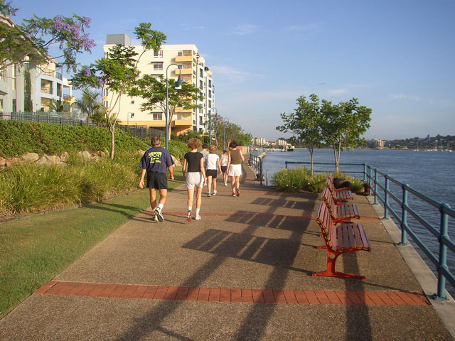 Teneriffe Teneriffe Wharves Boardwalk